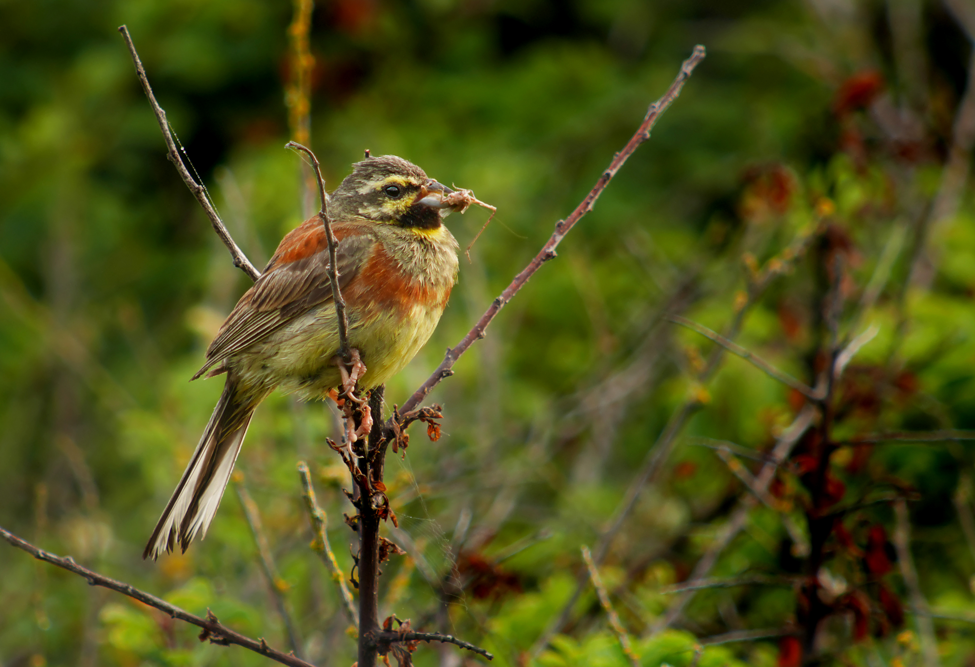 Digiscoping with Swarovski ATM 80 HD 30 X, Panasonic GX7 + Lumix G 20mm F1.7 ASPH lens (Adapter DCB)